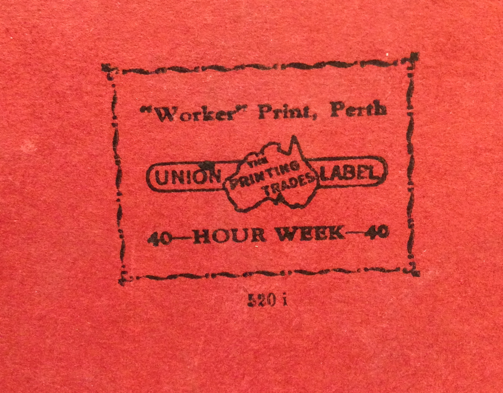 Westralian Worker Print, Perth, Western Australia printers mark on back of railway union booklet from the 1930's - including text about the 40 hour week. A rare example of a non-U.S. "union label".